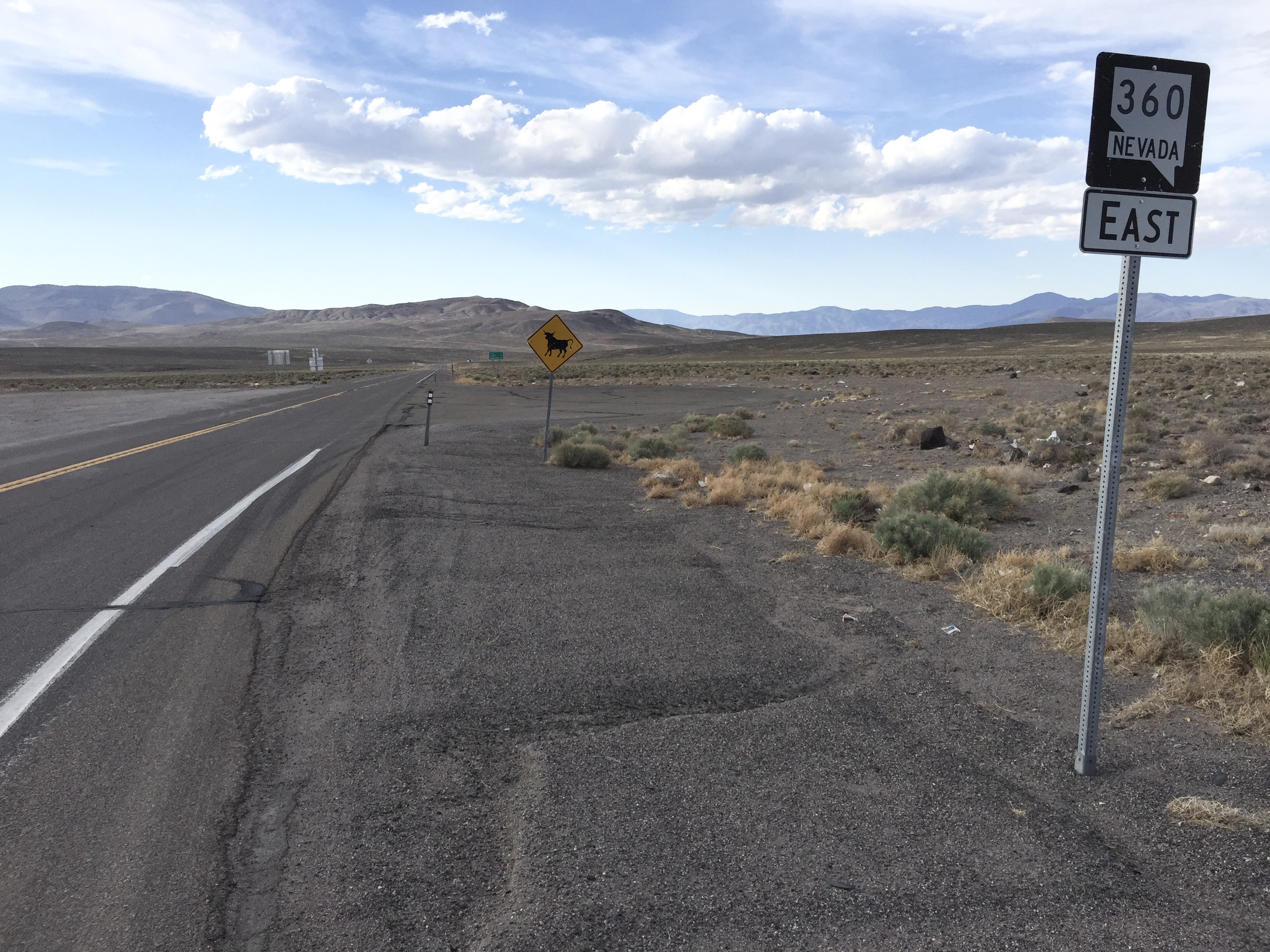 View north (east) from the south (west) end of Nevada State Route 360 (Mina-Basalt Cutoff Road) in Mineral County, Nevada